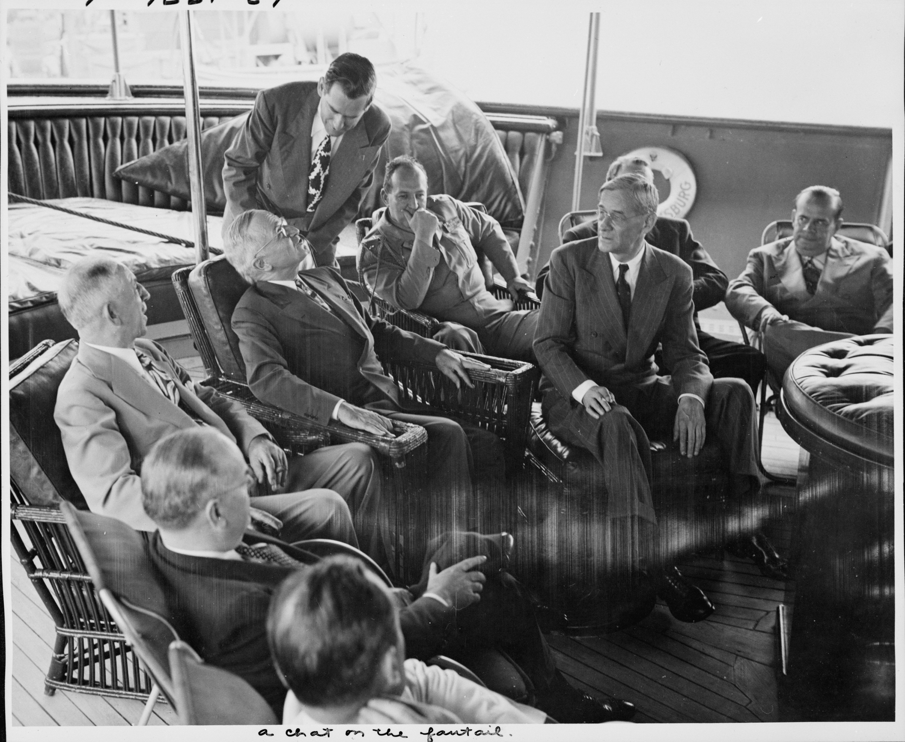 Scope and content: Original caption: (From the left side of the circle to the right)Unidentified man, Secretary of the Treasury John W. Snyder; Mr. Theodore "Ted" Marks; President Harry S. Truman; Major General Harry R. Vaughan, U.S.A., the President's Military Aide; Charles G. Ross, the President's Press Secretary; Clark M. Clifford, the President's Special Counsel (party obscured by Mr. Ross); and Honorable George E. Allen, Director, Reconstruction Finance Corporation, sit and have a chat on the fantail of the SS Williamsburg, the ship carrying the President to Bermuda. The man standing may be Appointment Secretary Matthew Connelly. From the album, "Vacation Cruise with the President, Vol. 1 of 4